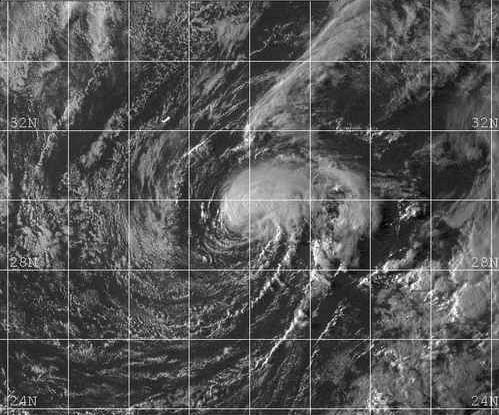 Satellite image of Tropical Storm Ana to the east of Bermuda